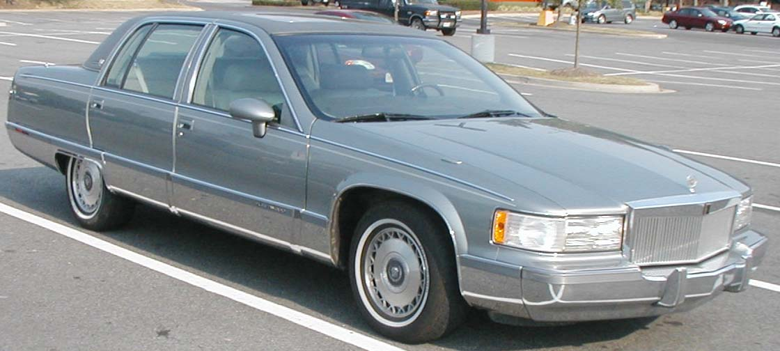 1993-1996 Cadillac Fleetwood photographed in USA.